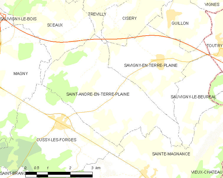 Map of French municipality Saint-André-en-Terre-Plaine